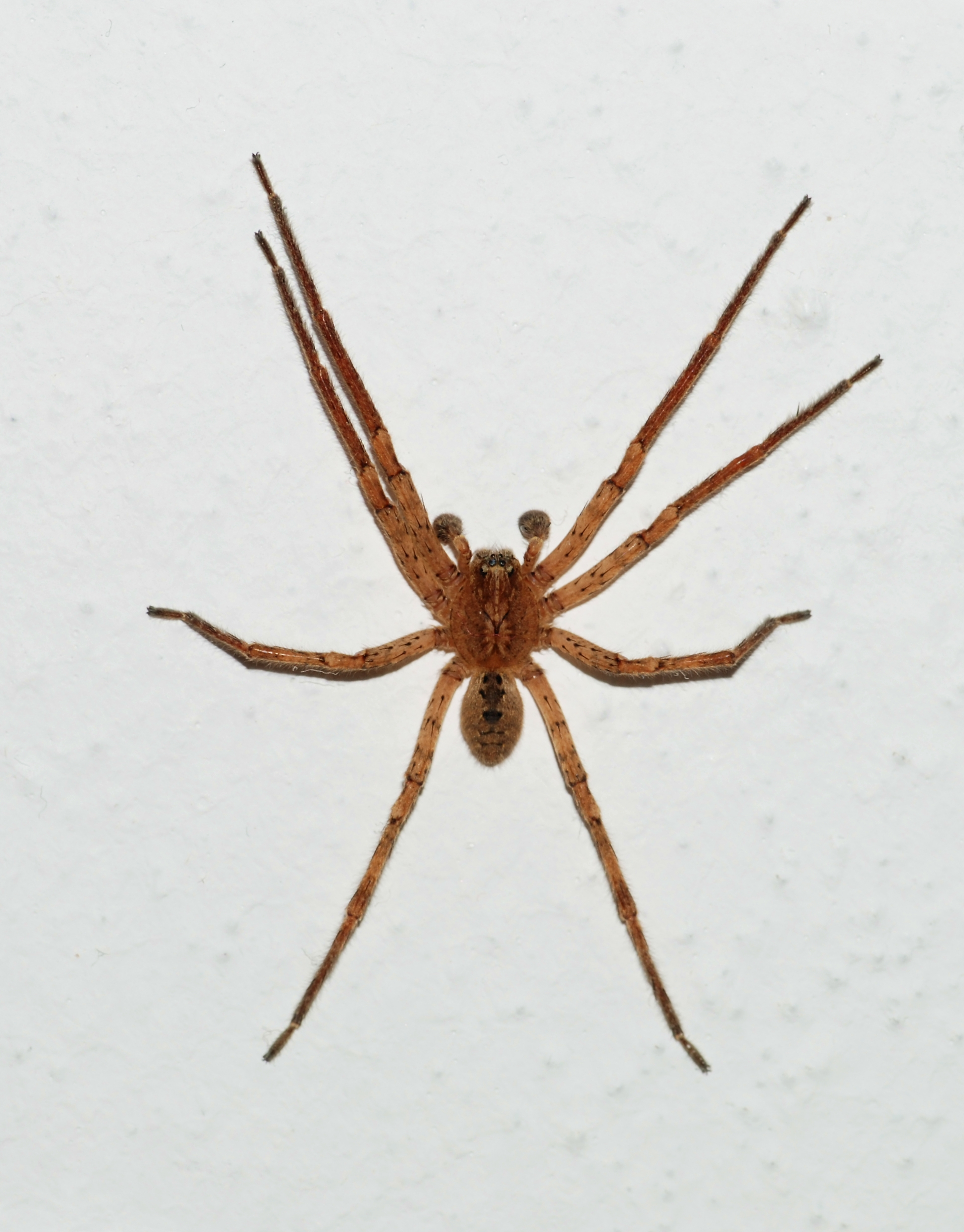 Male Spider (Zoropsis cf. spinimana)